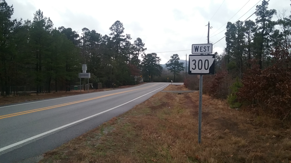 Arkansas Highway 300 taken just south of Pinnacle Mountain State Park